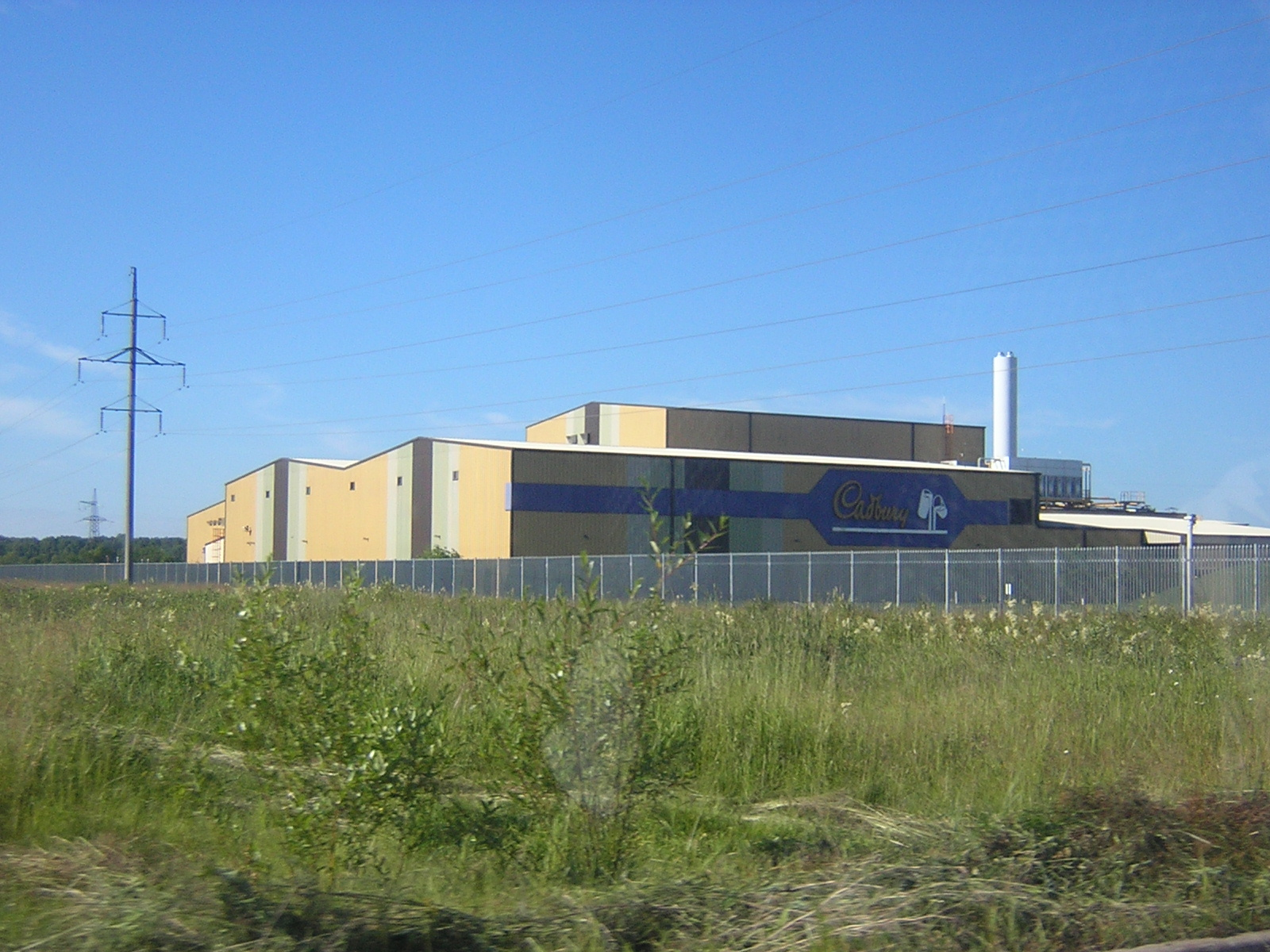 Cadbury factory in Chudovo (Novgorod oblast)